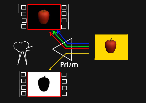 Sodium vapor process aka "yellowscreen".